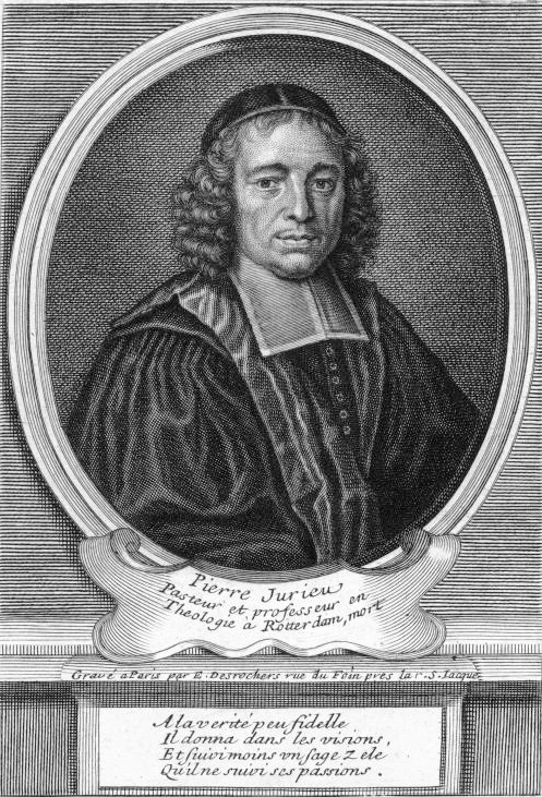 French Calvinist theologian Pierre Jurieu (1637-1713) by Étienne Desrochers (1668-1741).